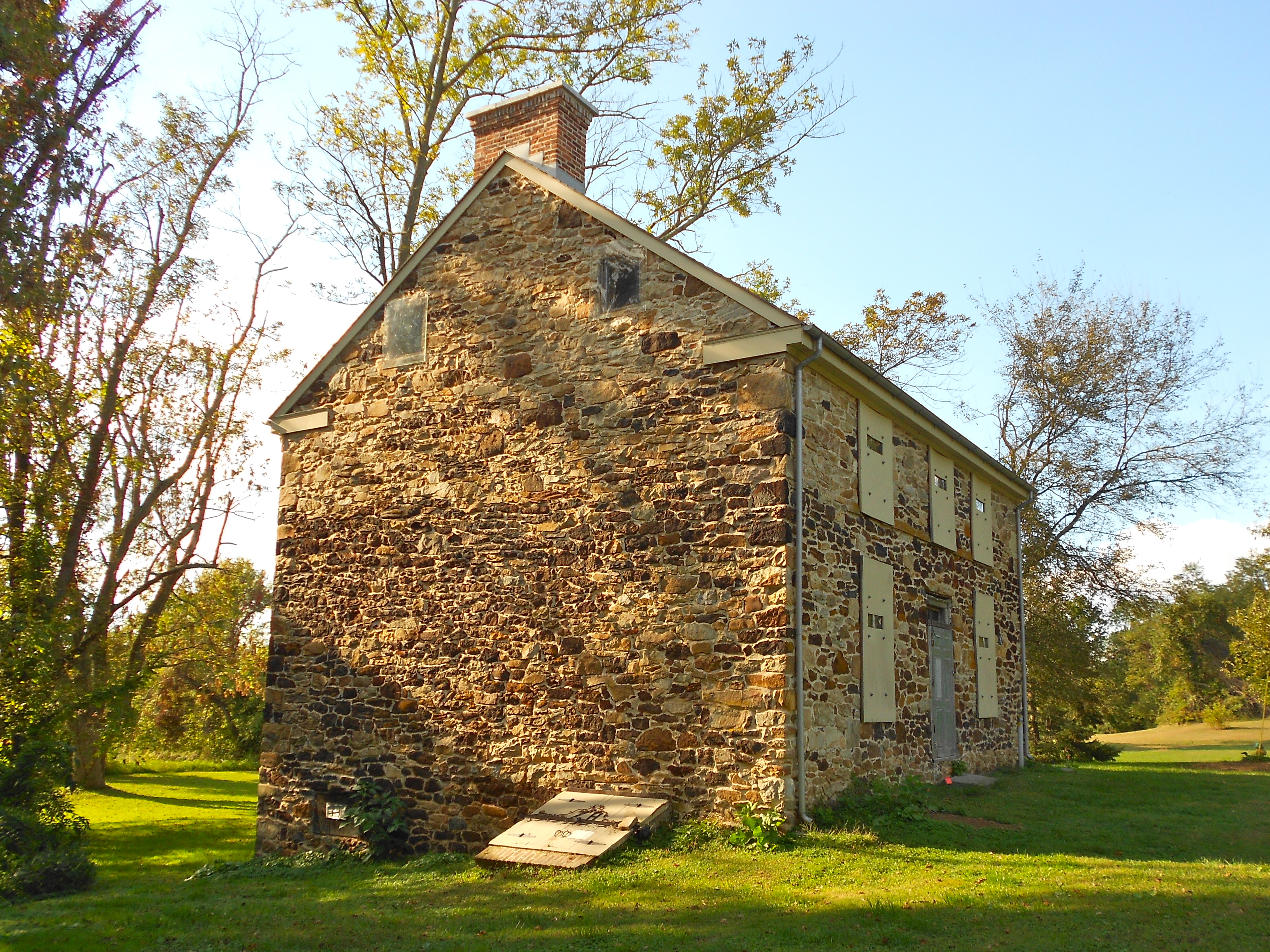 Elk Landing on the NRHP since September 7, 1984. At Landing Lane, Elkton, Cecil County, Maryland. There are 2 buildings on the site, a newer frame building, and this the older stone building.